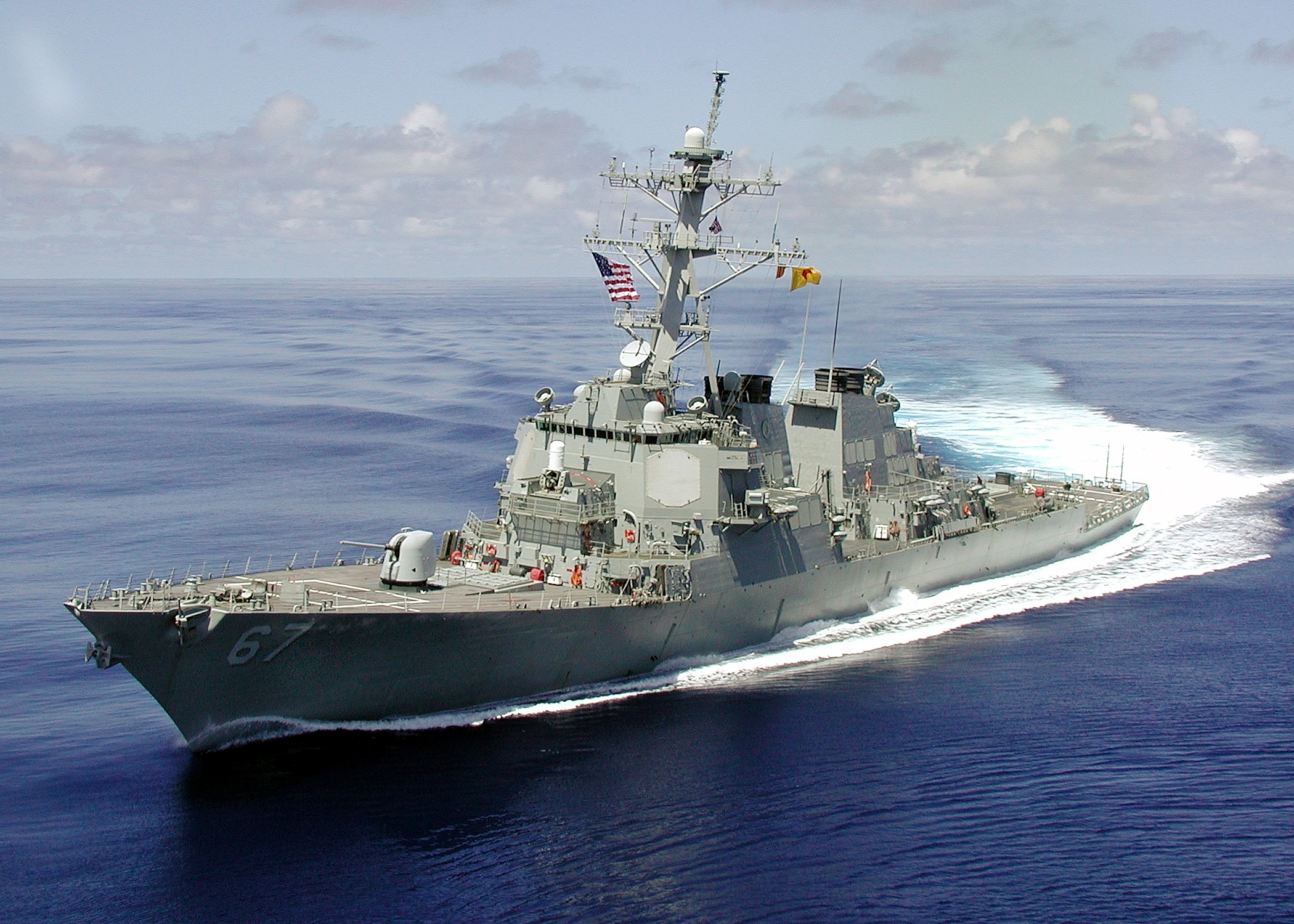 000914-N-0000X-002 Eastern Atlantic -- The U.S. Navy Arleigh Burke class guided missile destroyer USS Cole (DDG 67) underway to the Mediterranean Sea, approximately one month before being attacked by a terrorist-suicide mission in the early morning hours of October 12th, 2000, while refueling in the port city of Aden, Yemen.